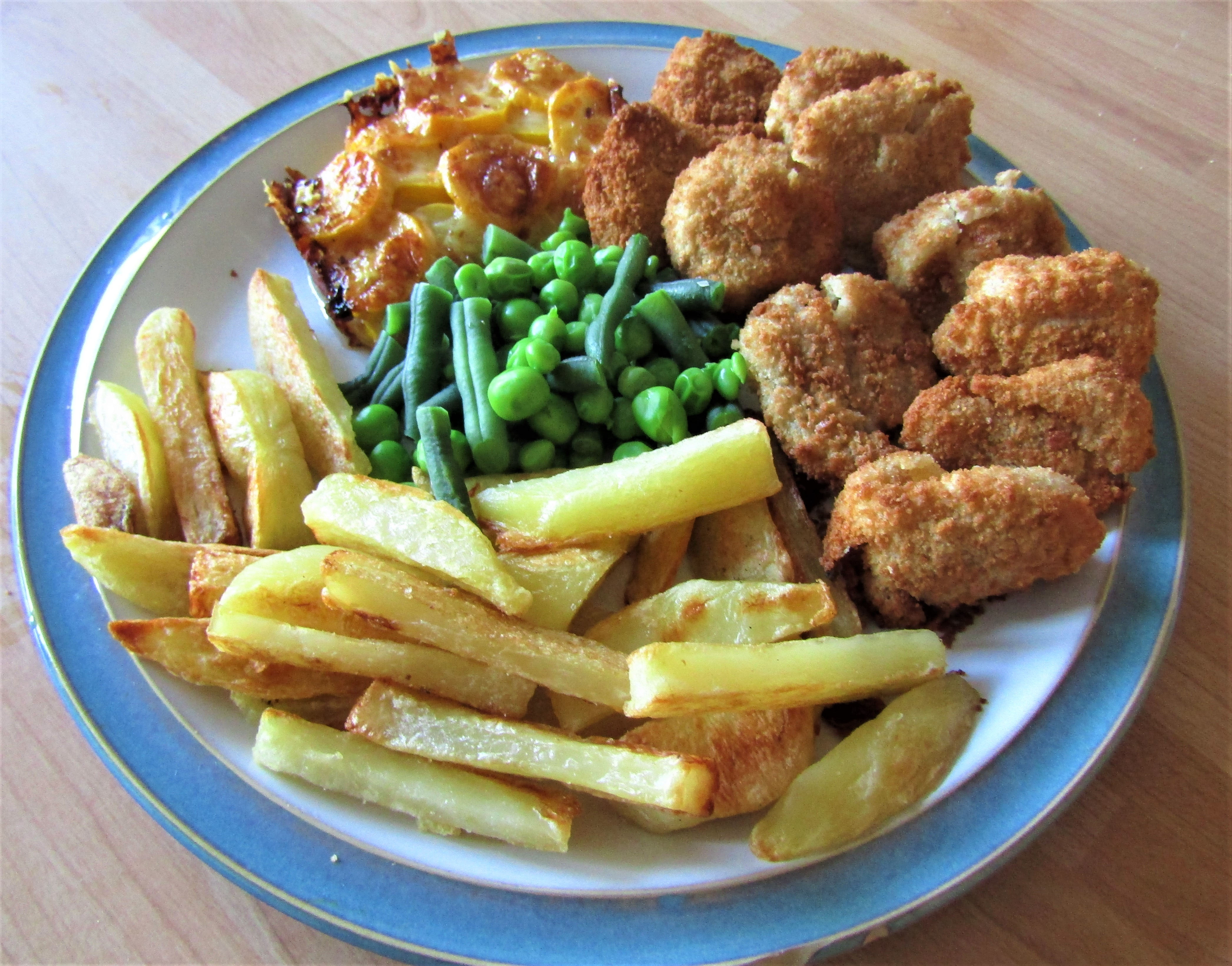 A dish of Breaded scampi, garden peas, beans, cheese corgettes and chips served in the town of Cromer, Norfolk, England.